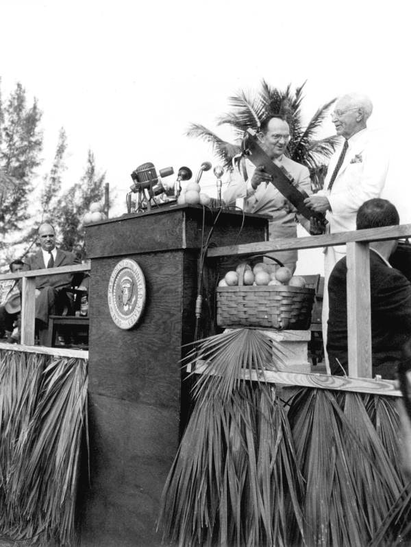 August Burghard handing Ernest F. Coe a plaque at the dedication ceremony for Everglades National Park